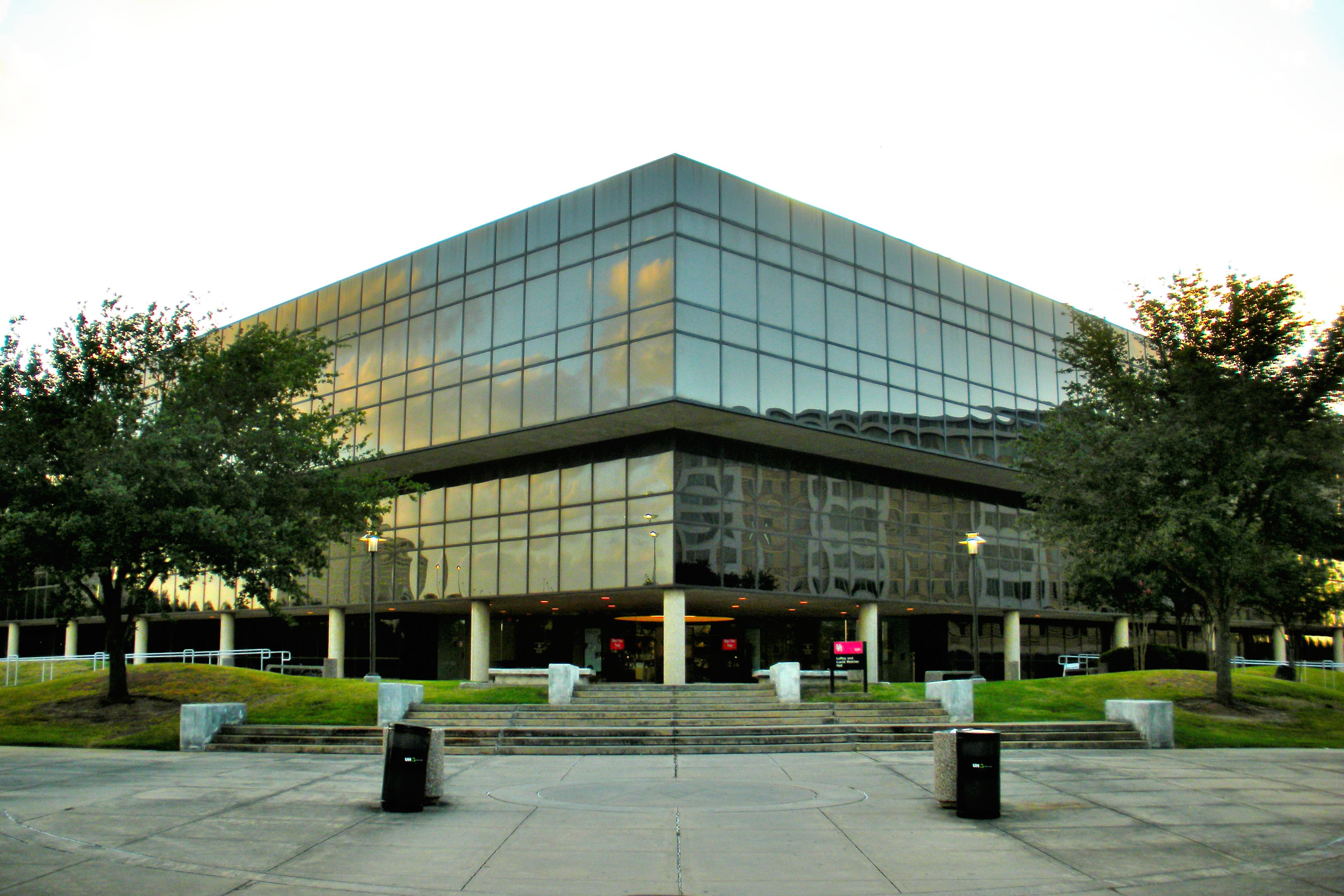 Front of Melcher Hall on the campus of the University of Houston